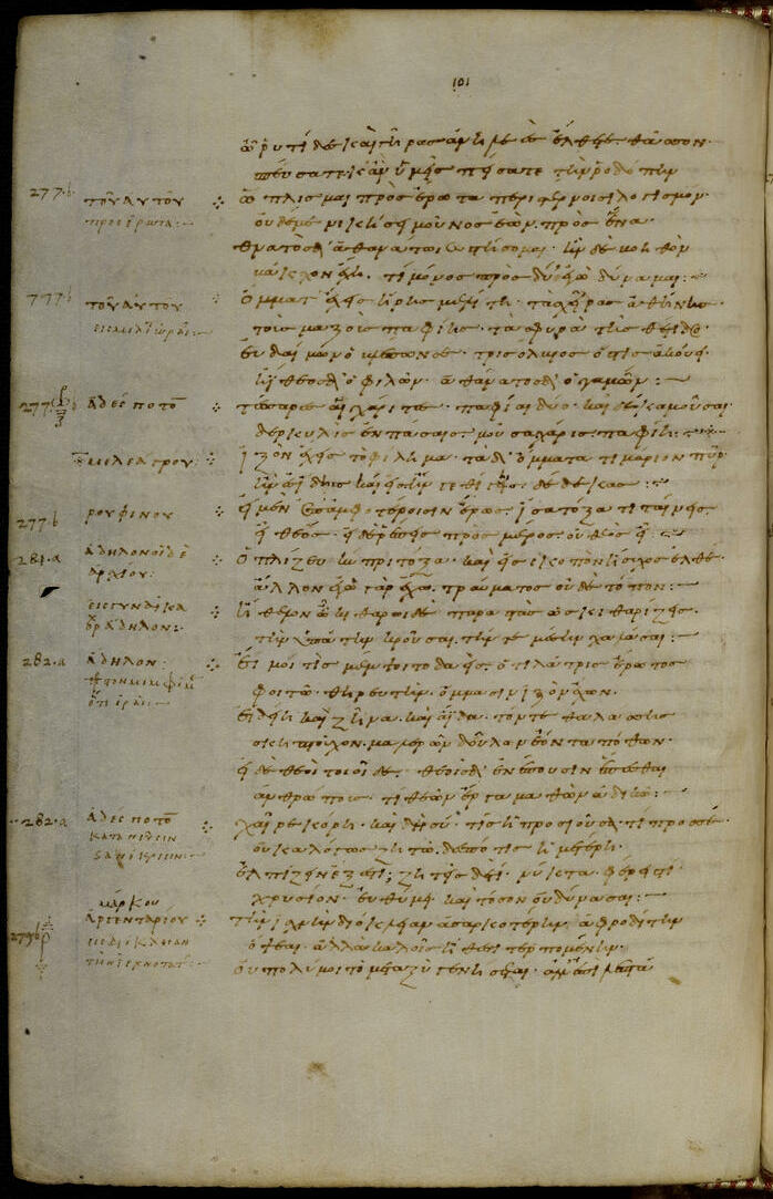 page 101 of the Anthologia Palatina, the Palatine Anthology, the collection of Greek epigrams and poems from the 7th century BC to 600 AD, from the University Library Heidelberg (Cod. Pal. graec. 23 Anthologia Palatina)